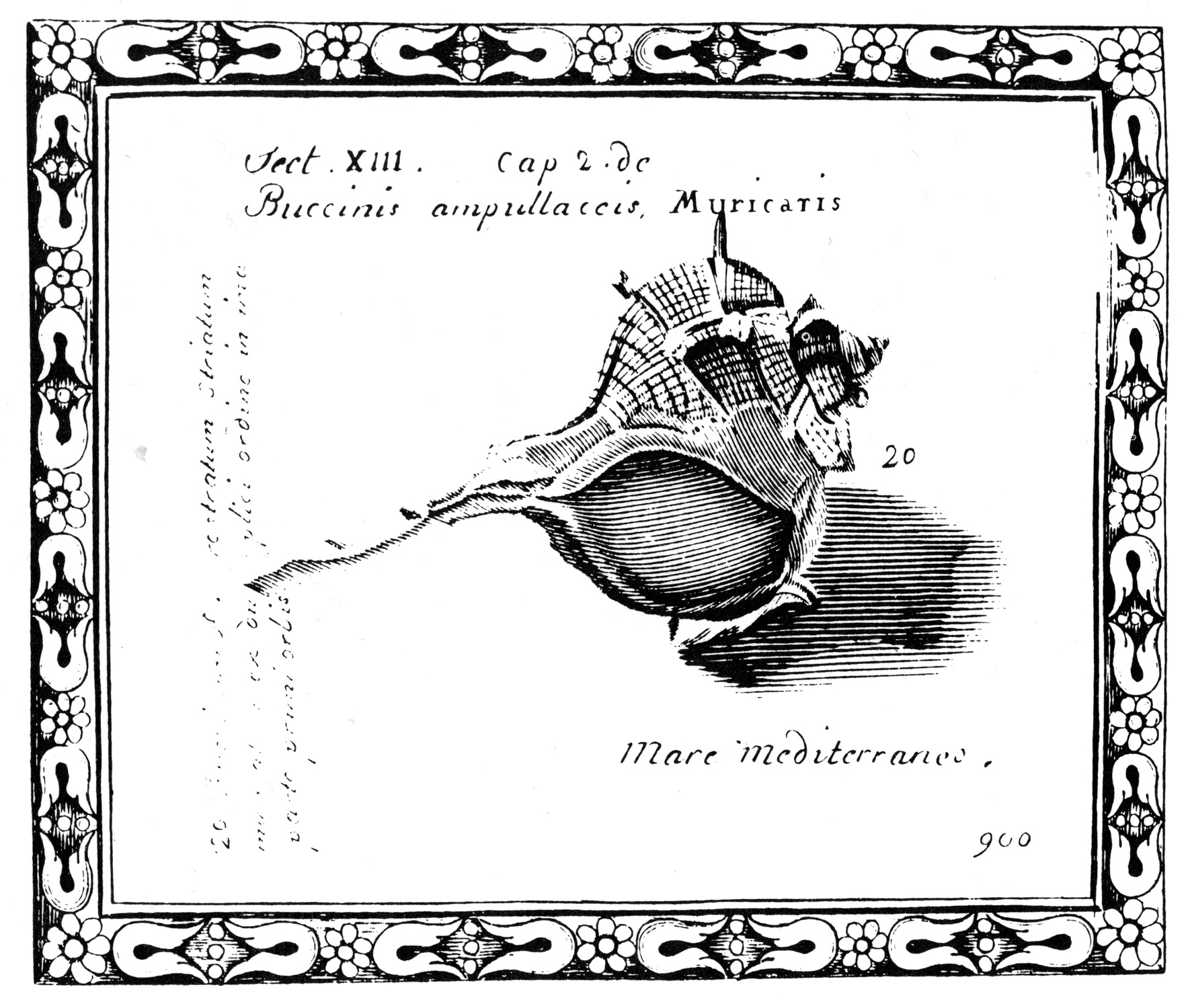 Species : Murex brandaris Linnaeus